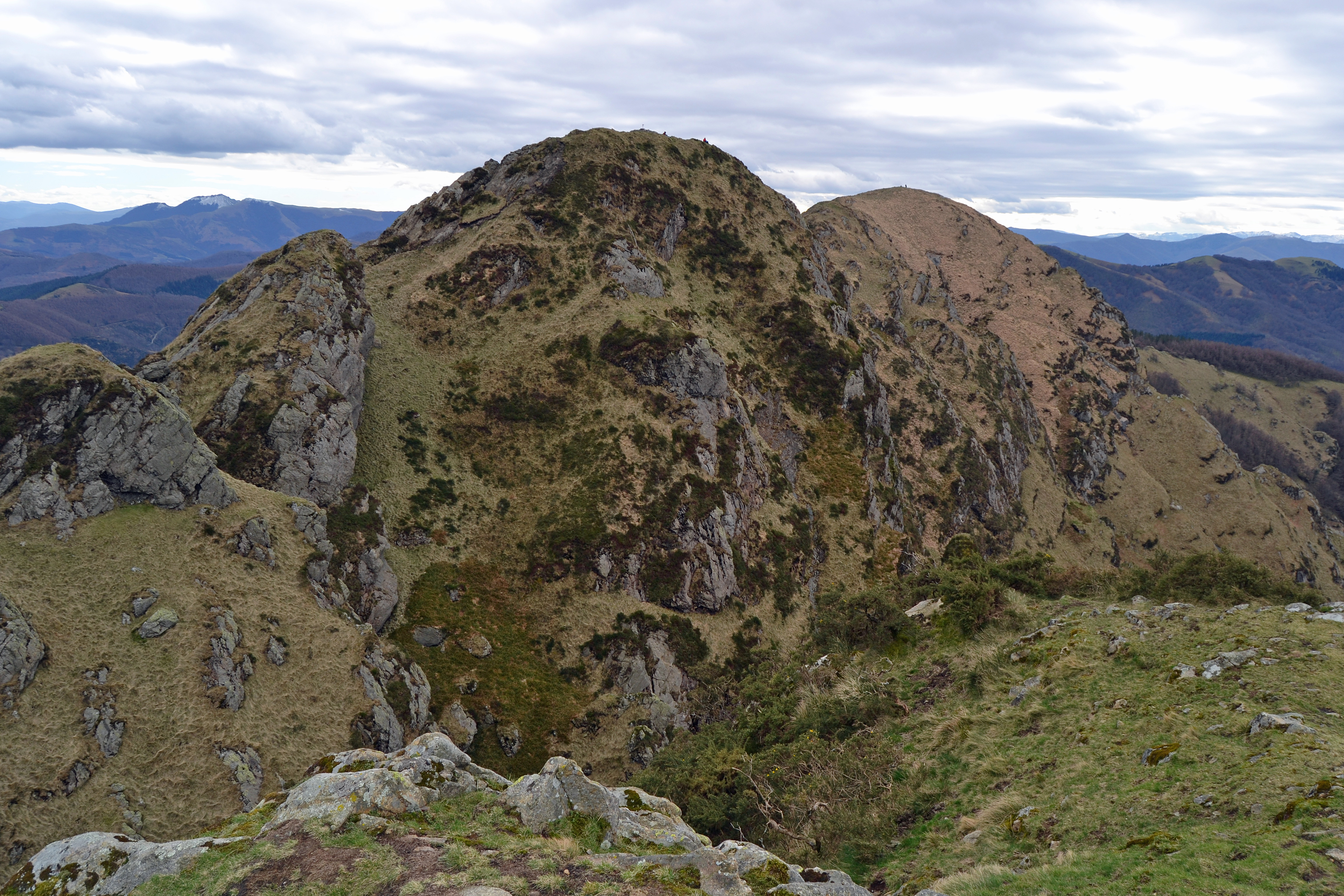 View of Txurrumurru and Erroilbide peaks from Hirumugarrieta (Aiako Harria) mountain. Gipuzkoa, Basque Country.